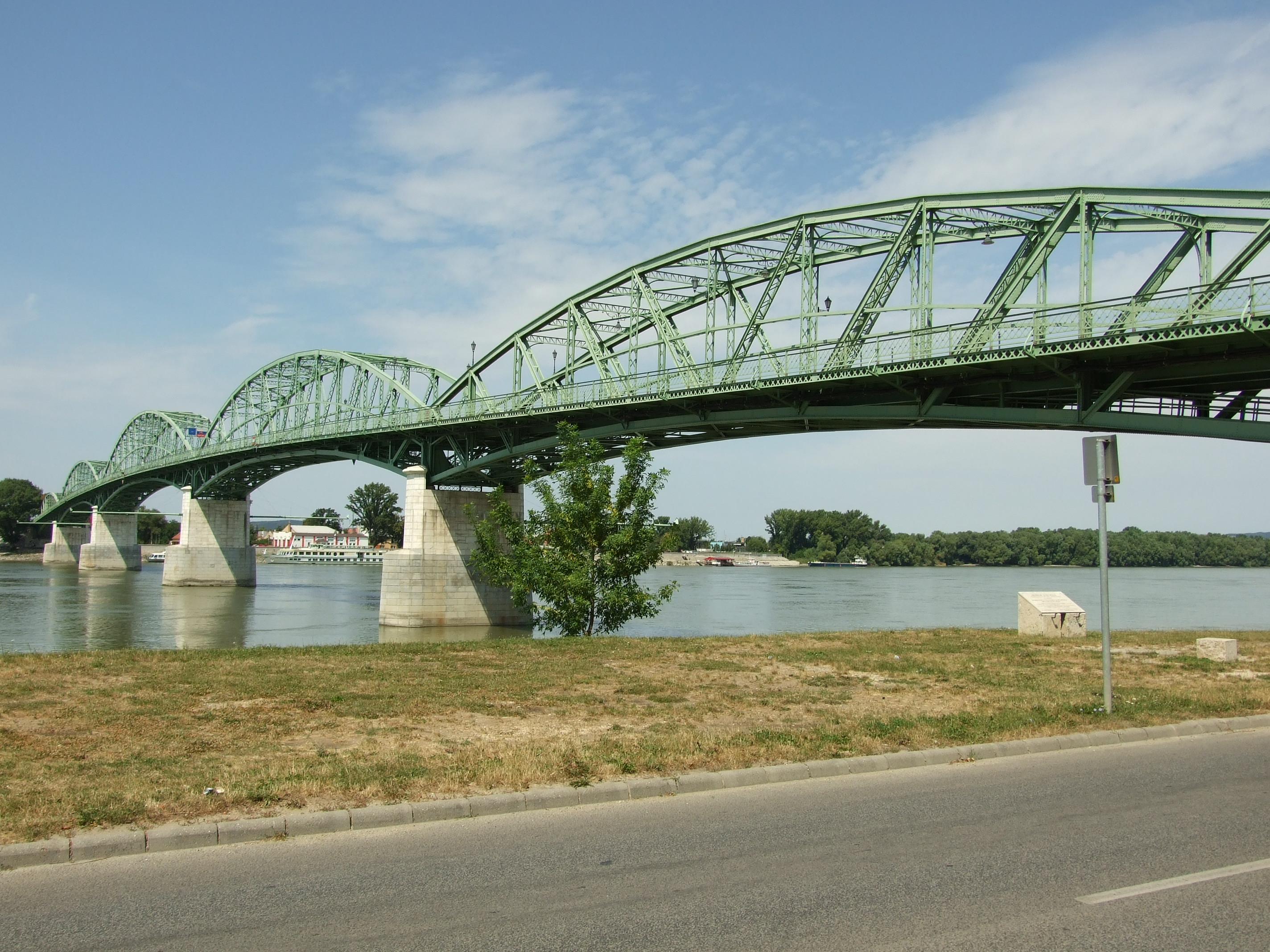 Esztergom, bridge connecting the city with Štúrovo in Slovakia, Komárom-Esztergom comitat, Hungaryhelp